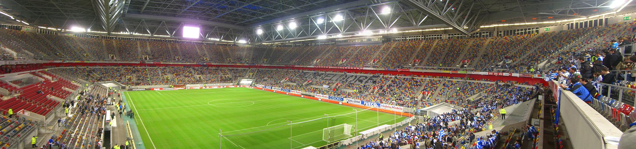 Panorama of the LTU arena in Düsseldorf, Germany